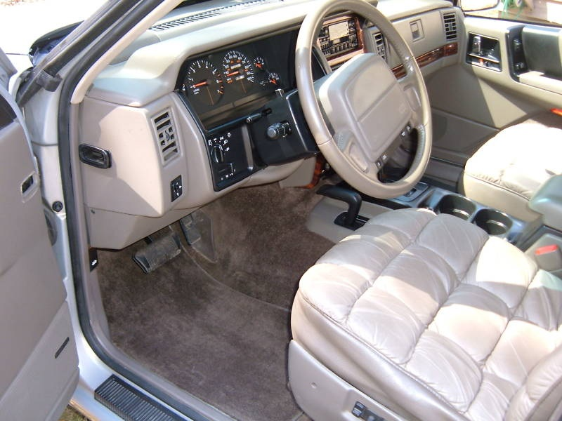 1993 Jeep Grand Wagoneer interior leather